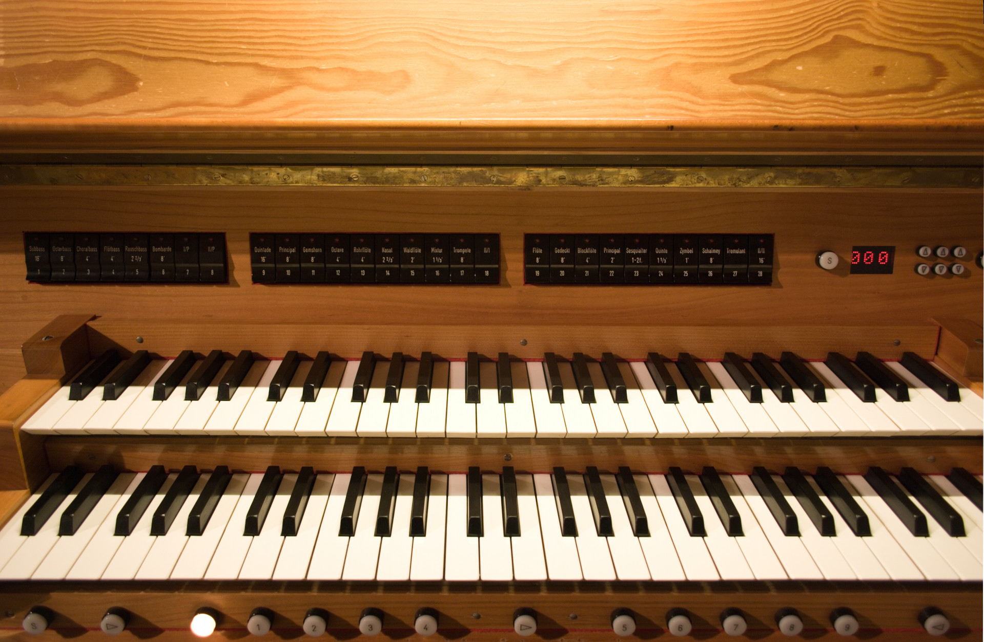 Console of the pipe organ in St. Oswald church, Stuttgart-Weilimdorf, Germany